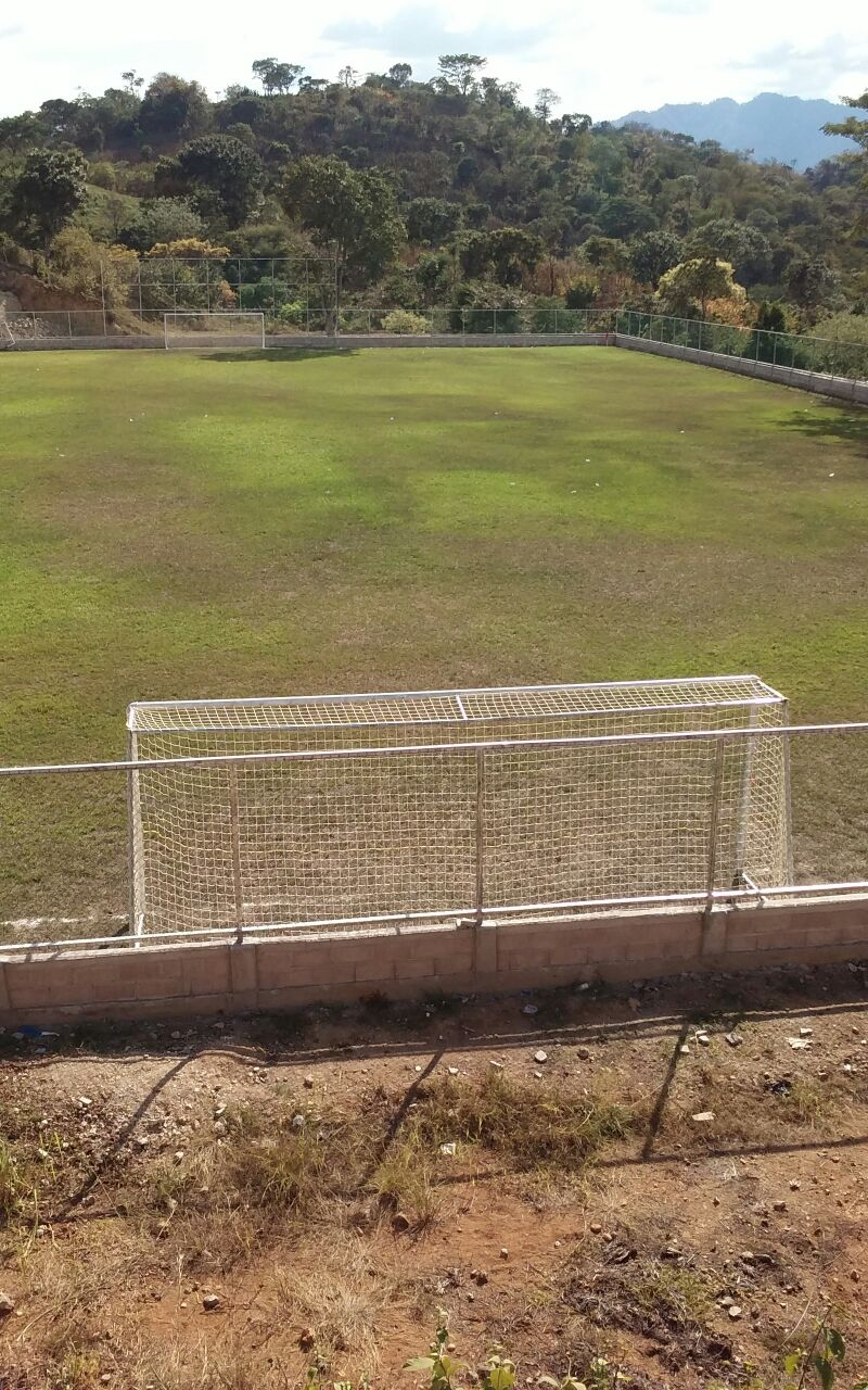 Campo de fútbol Virginia lempira